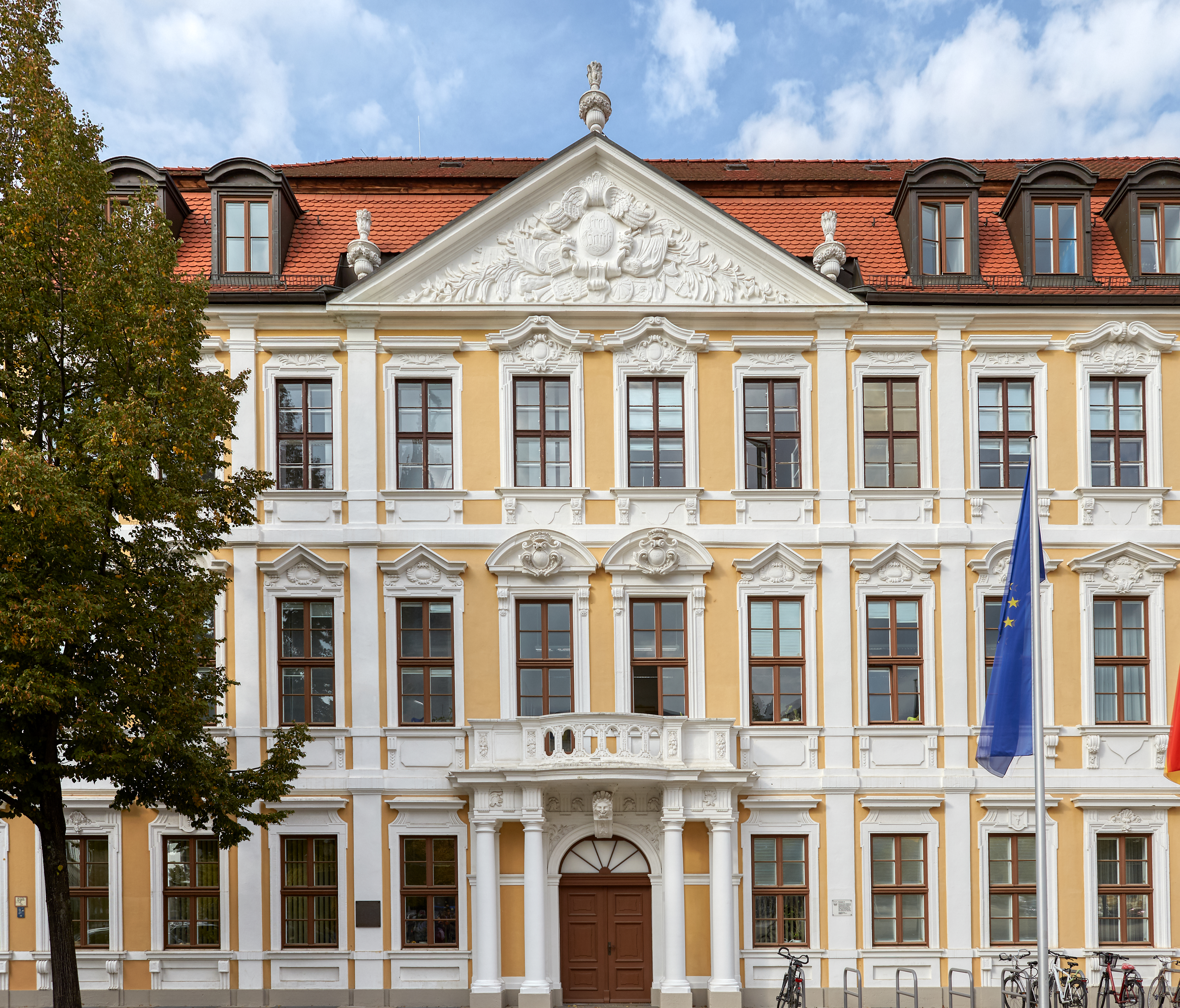 Landtag of Saxony-Anhalt Domplatz 9